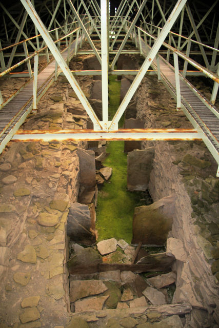 Interior of Mid Howe chambered cairn shed, near to Westness, Orkney Islands, Great Britain. The overhead walkway allows visitors to peer down into the chambered cairn, whilst the shed protects the interior from the weather.